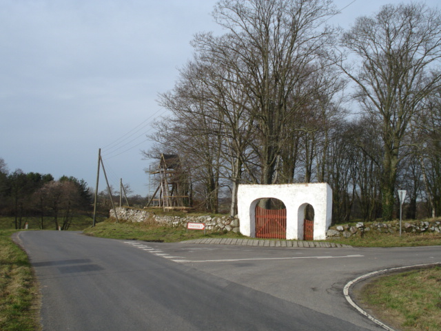 The church yard at Krogsbæk, Jutland, Denmark